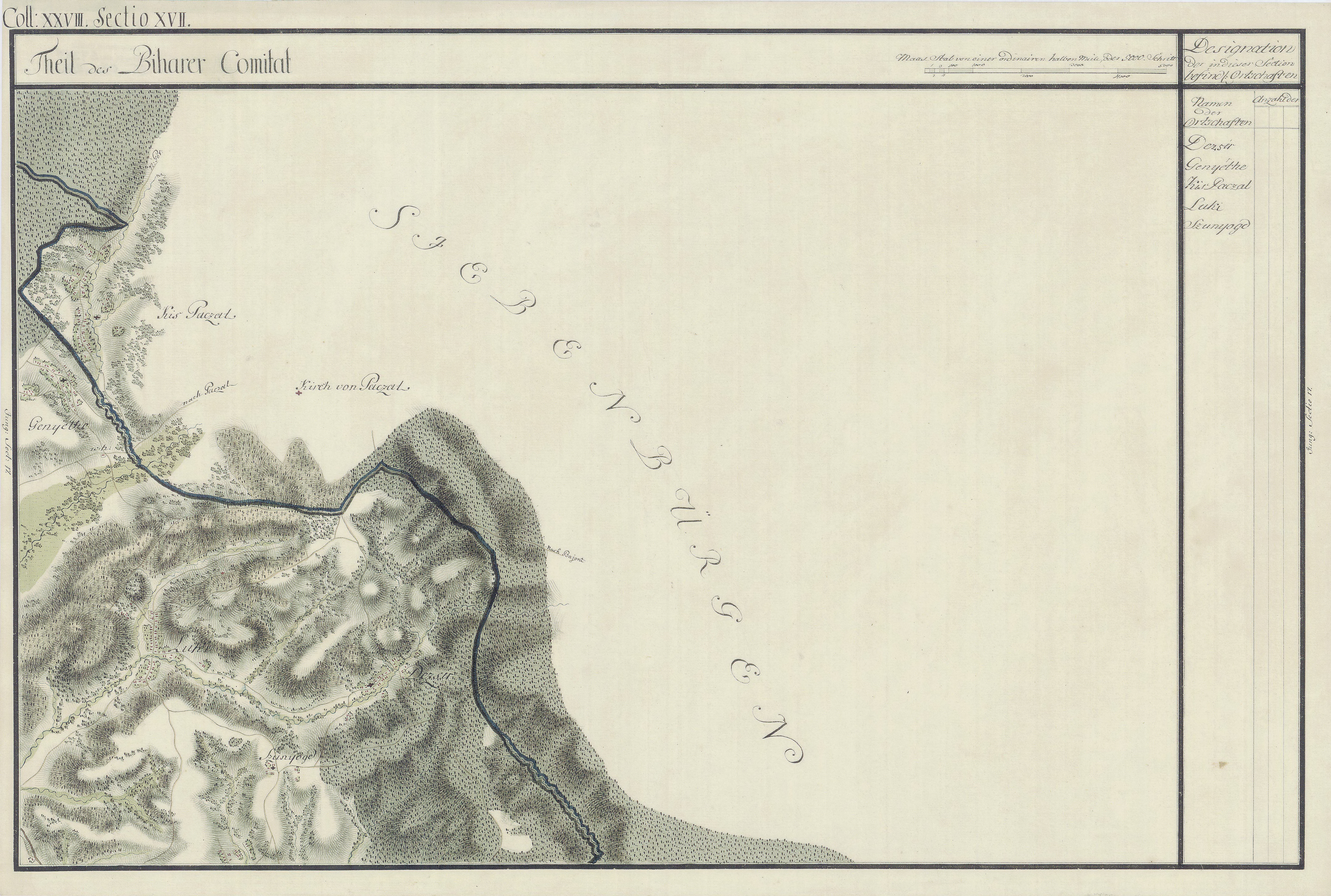 Bihor County, 1782-85. Josephinische Landesaufnahme pg.28-17